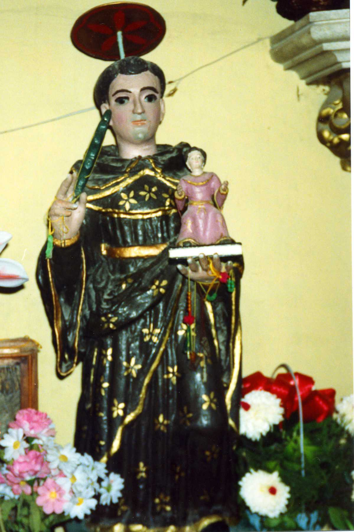 San Antonio de Padua, in the church of San Pablo Mitla, Oaxaca, Mexico, along the left wall of the nave between the two ribs